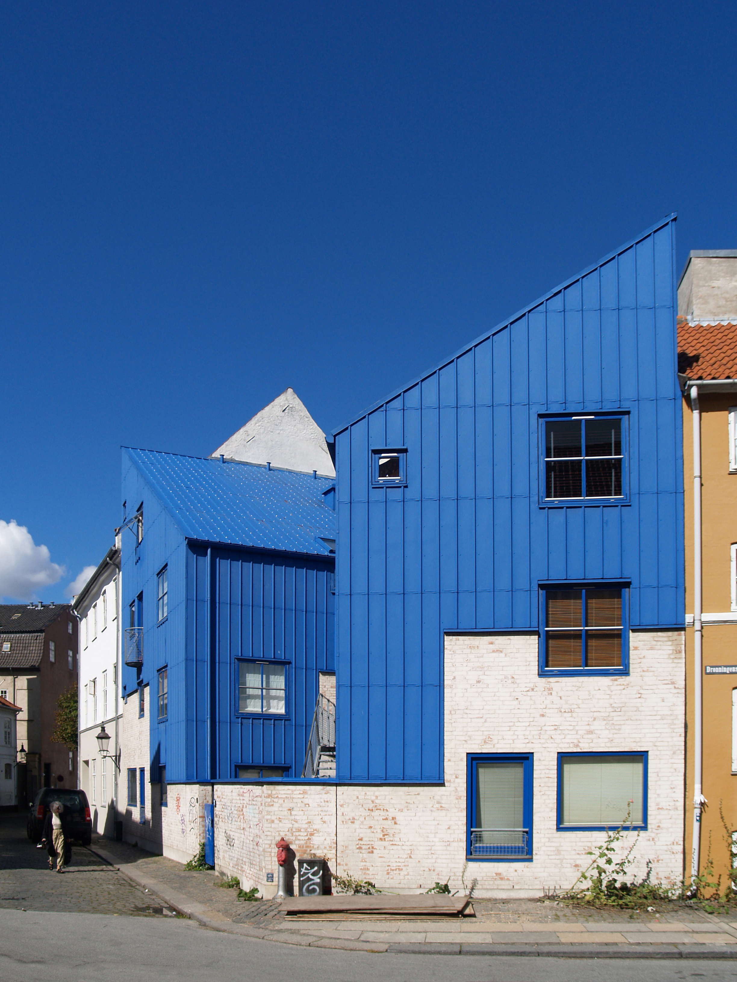 det blå hjørne, social housing, christianshavn, copenhagen 1983. architects: tegnestuen vandkunsten.